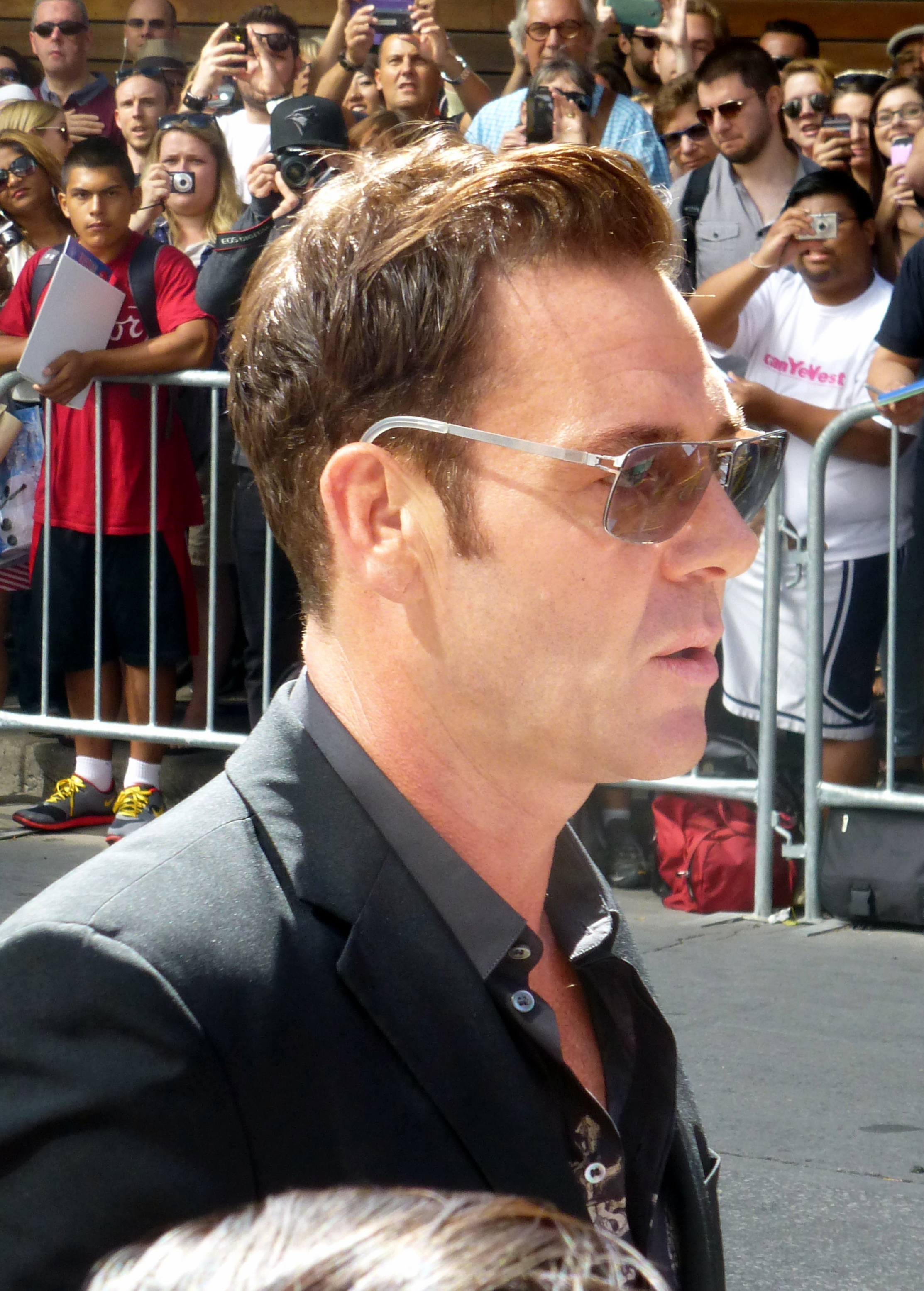 Marton Csokas at the press conference of The Equalizer, 2014 Toronto Film Festival